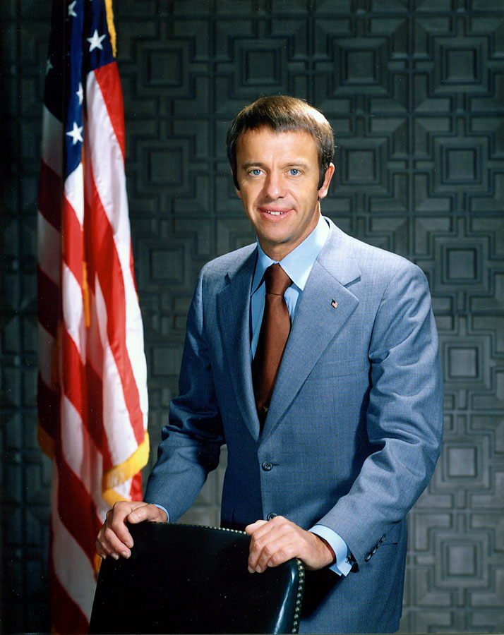 Business suit portrait of Al Shepard